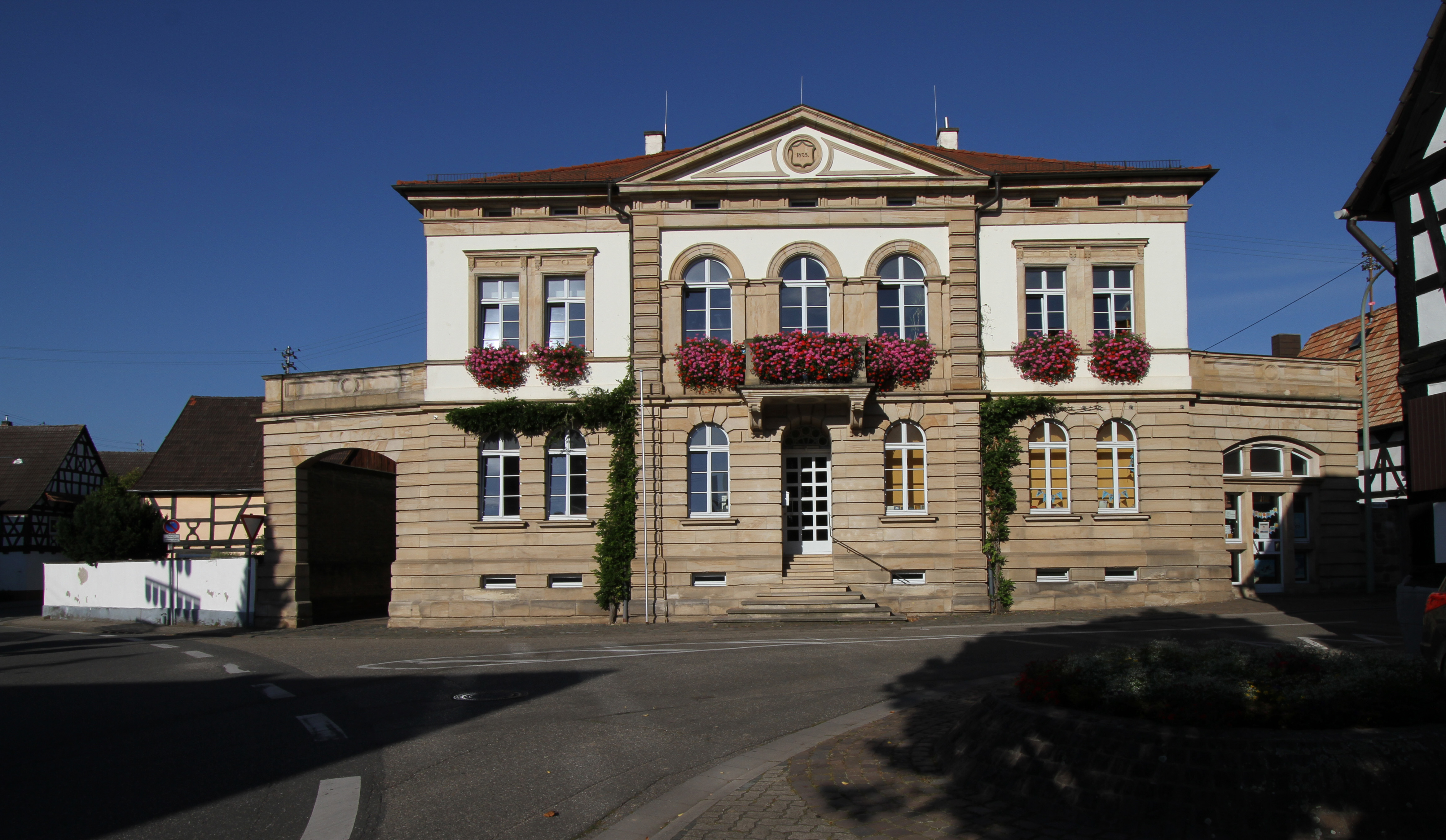 Cultural heritage monument in Lustadt